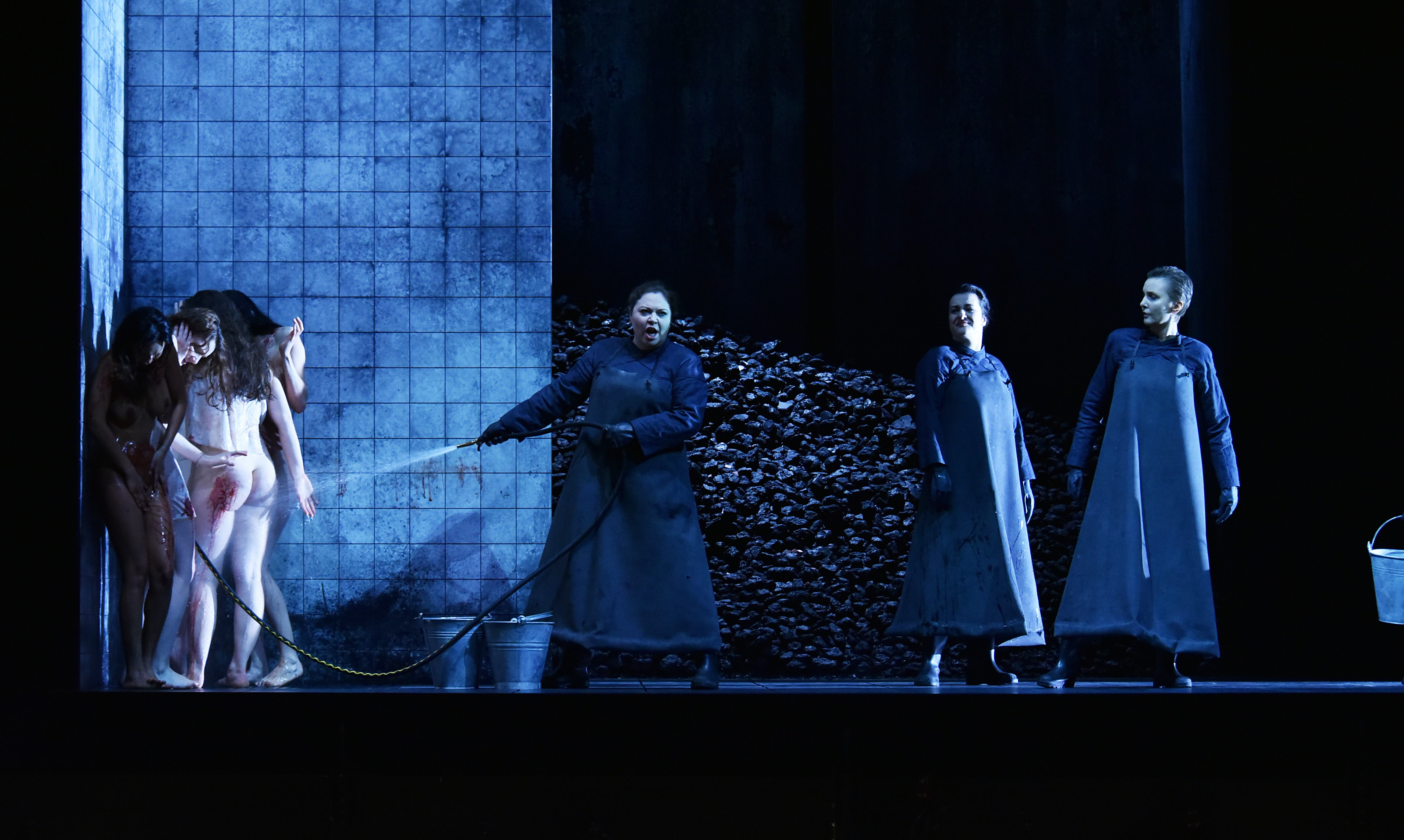 Elektra, Vienna State Opera 2015